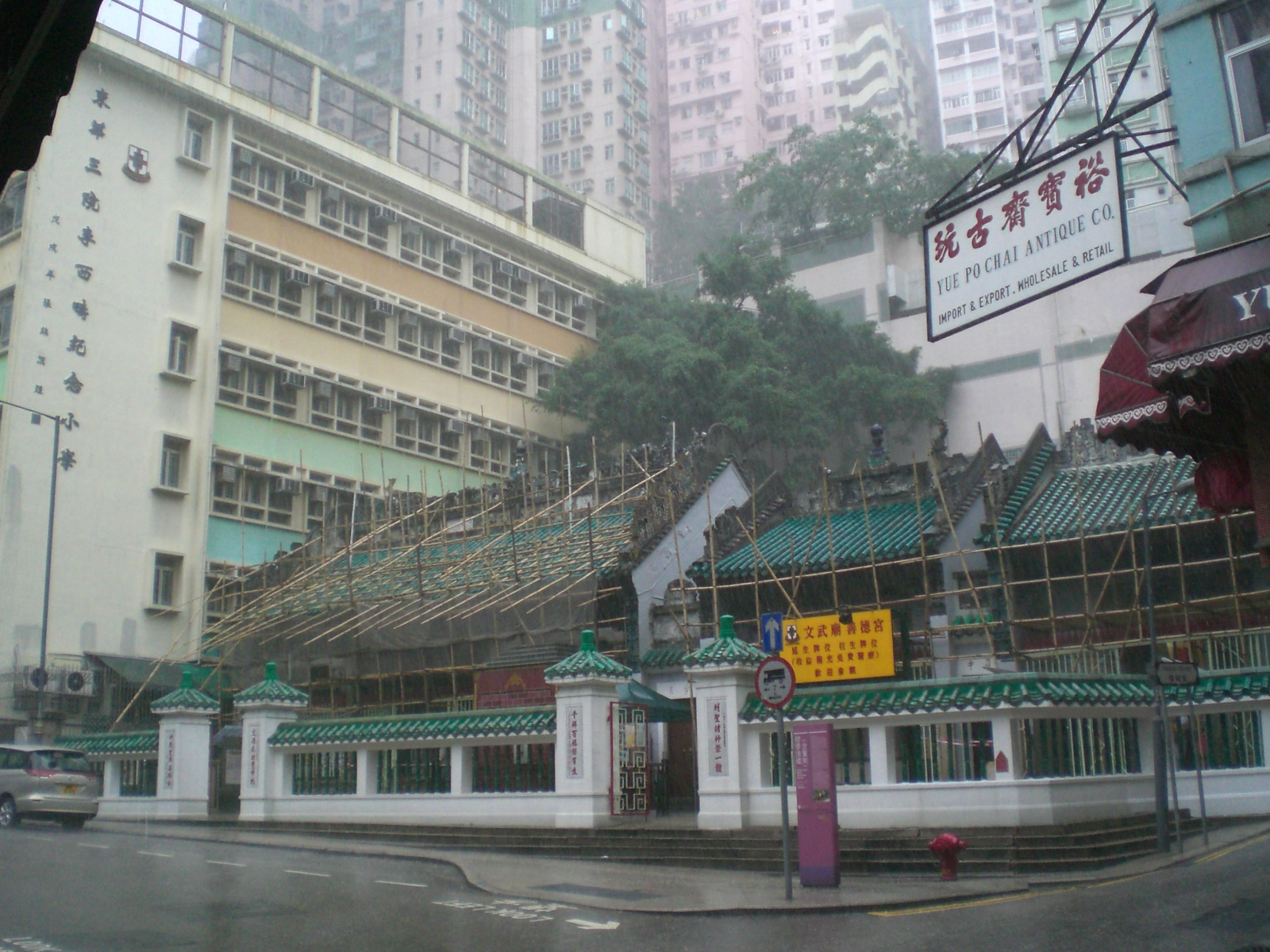 東華三院文武廟在zh:雨天